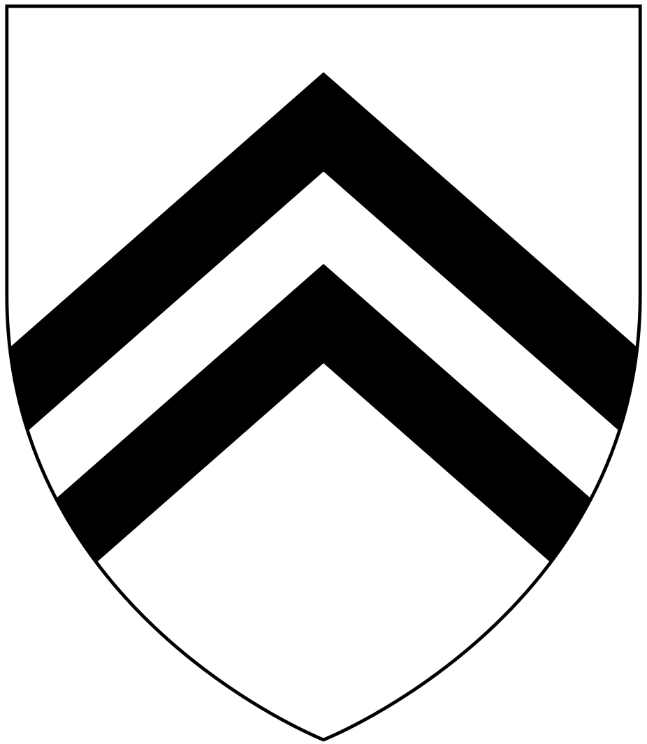 Arms of Esse, alias Ashe, Aysshe, of Sowton, Devon: Argent, two chevrons sable. Source: Vivian, Lt.Col. J.L., (Ed.) The Visitation of the County of Devon: Comprising the Heralds' Visitations of 1531, 1564 & 1620, Exeter, 1895, p.25; Pole, Sir William (d.1635), Collections Towards a Description of the County of Devon, Sir John-William de la Pole (ed.), London, 1791, p.481